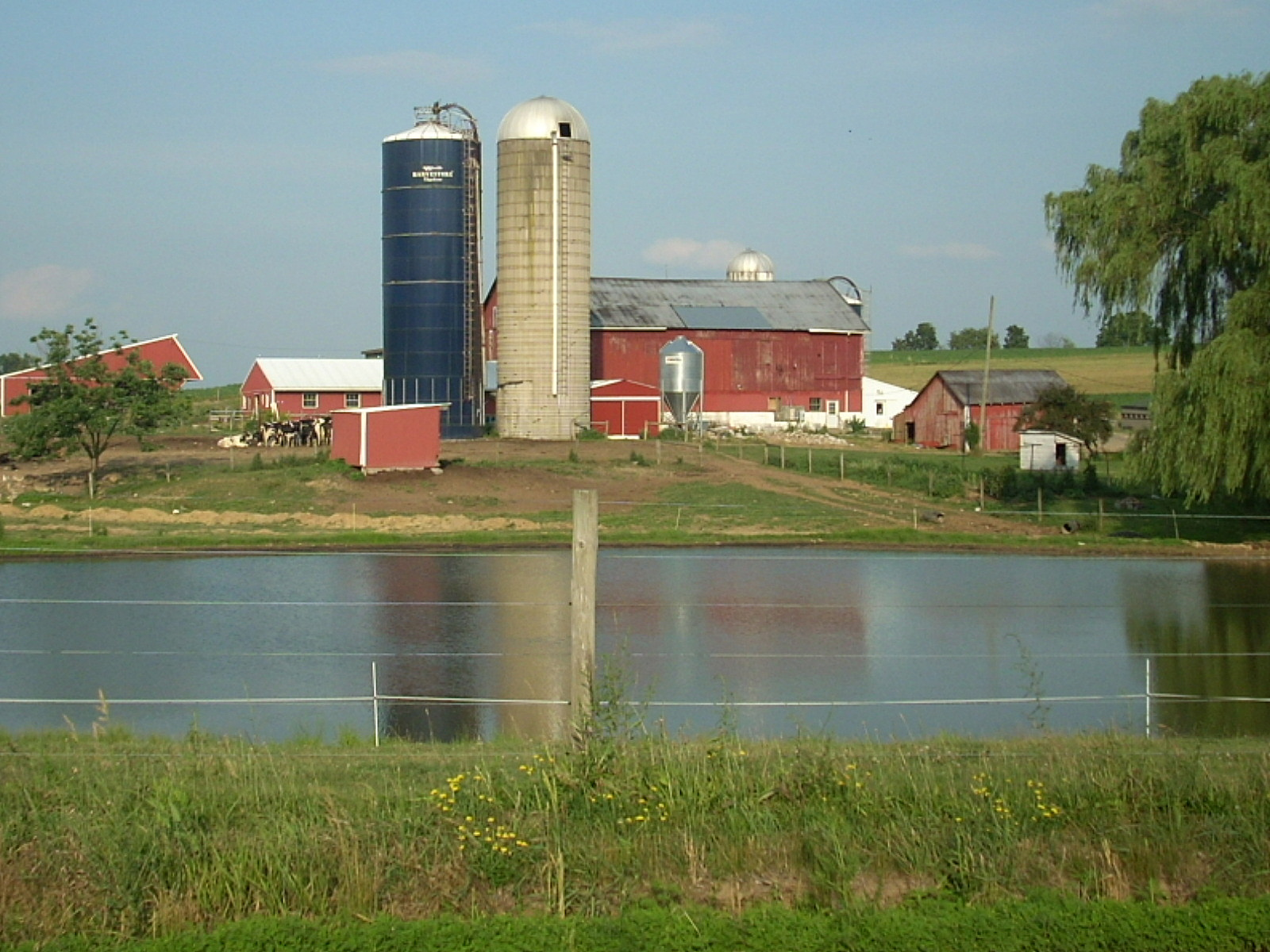 A farm in West Buffalo Township just off PA Route 192.